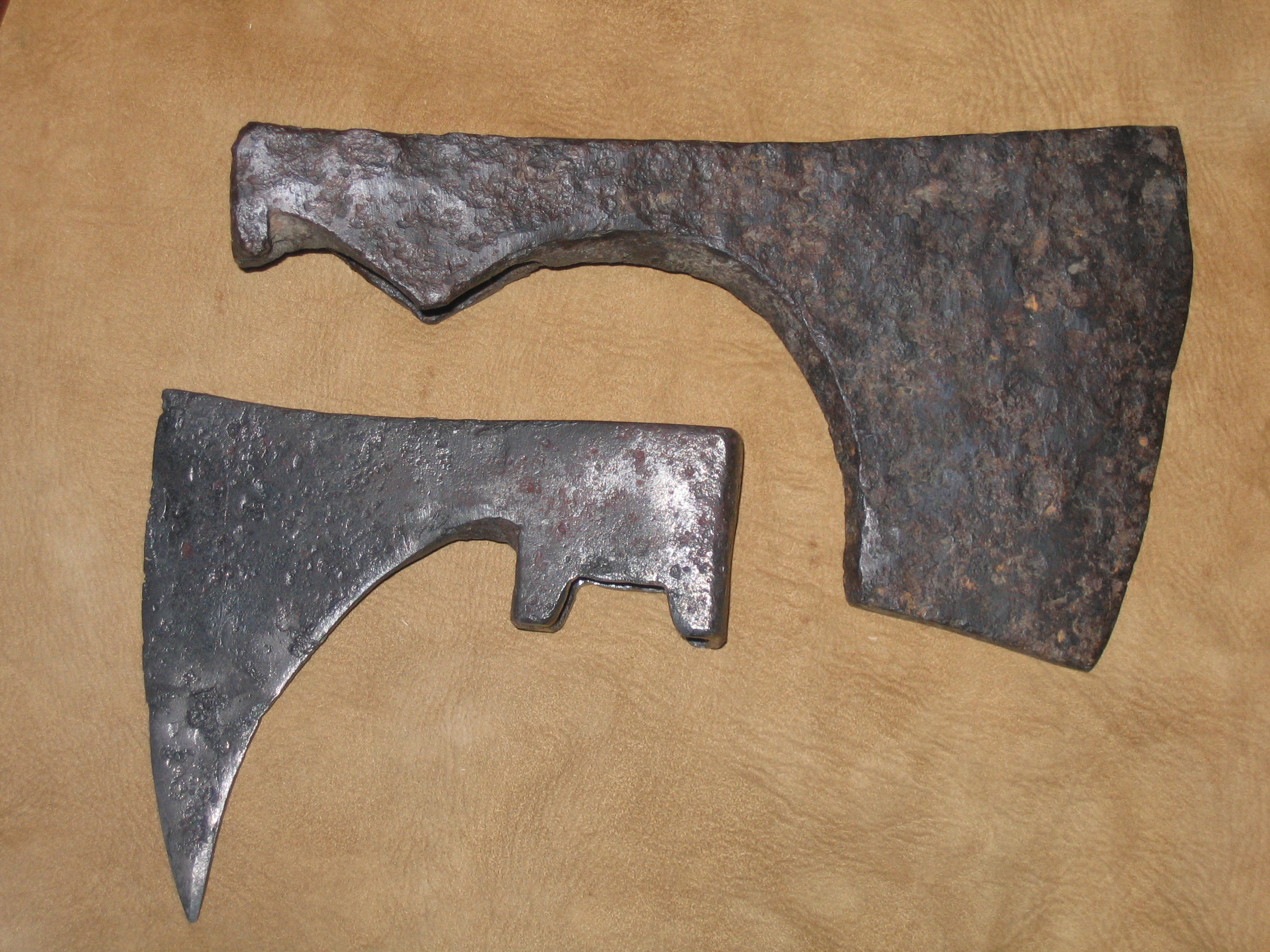 A Viking "bearded axe" blade circa 1000 (top), and a German horseman's axe blade circa 1100 (bottom).